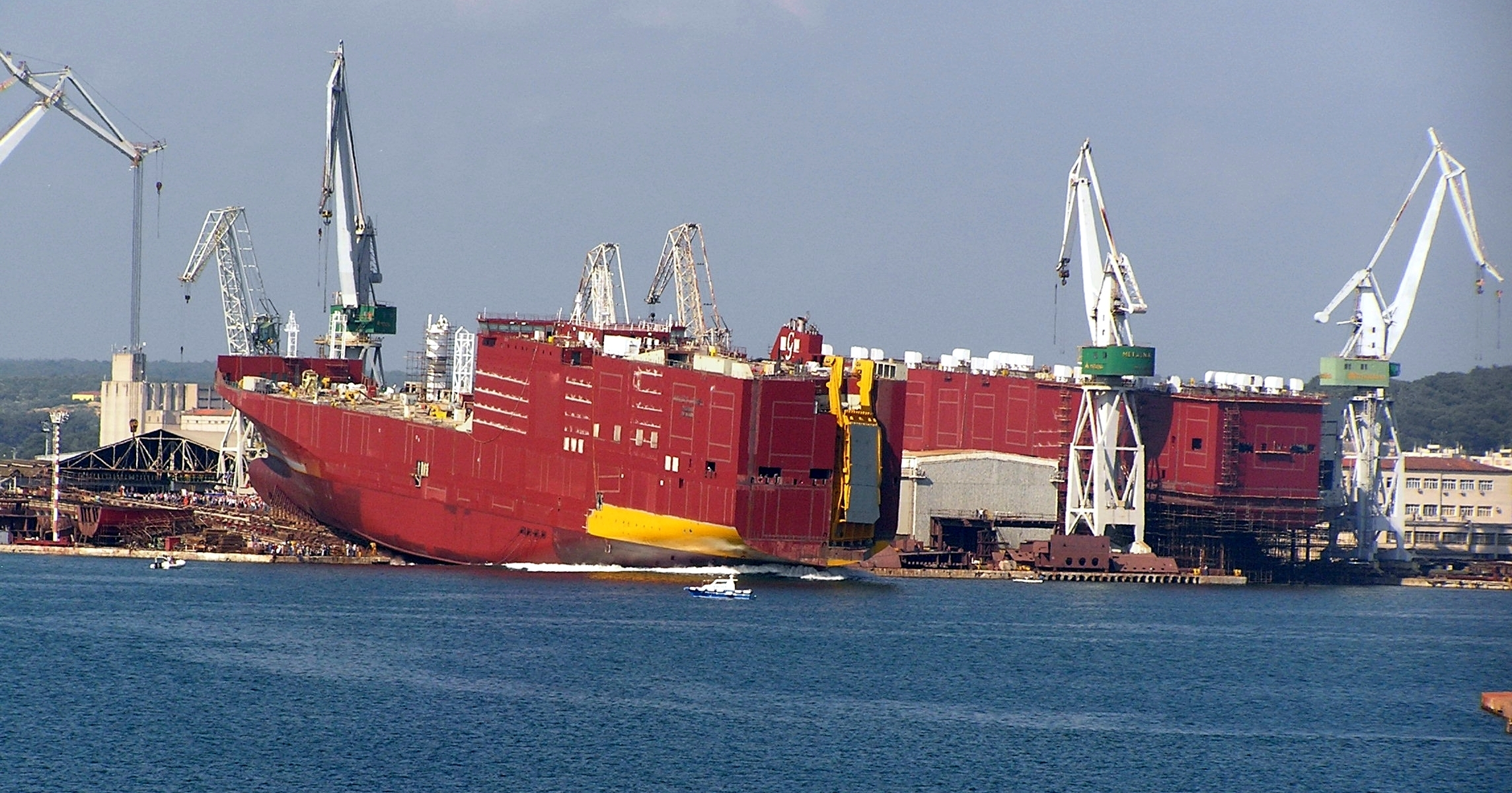 Ship launch in Uljanik shipyard, Pula